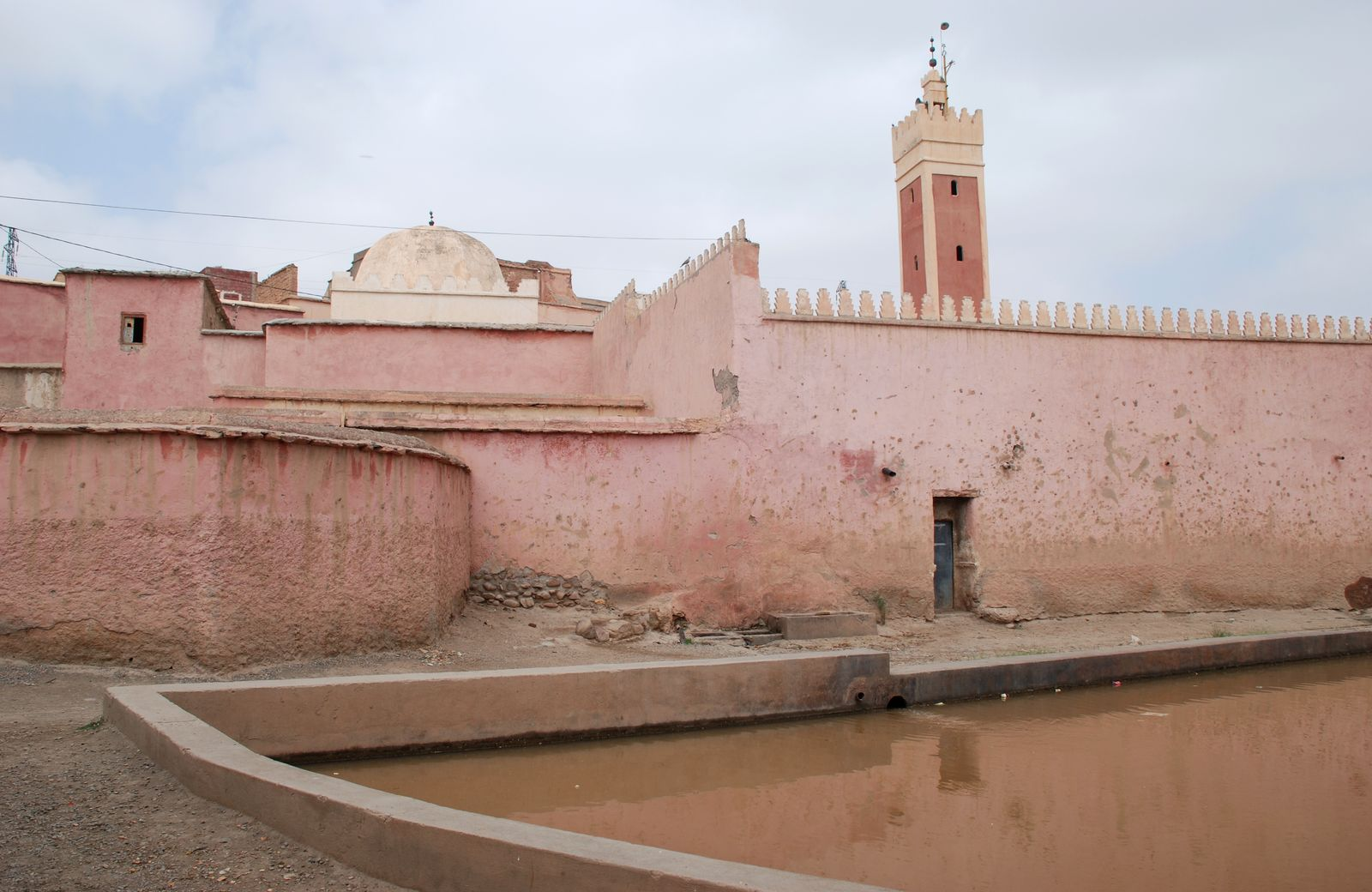 Qubba of Lalla Takerkoust, south of Marrakech